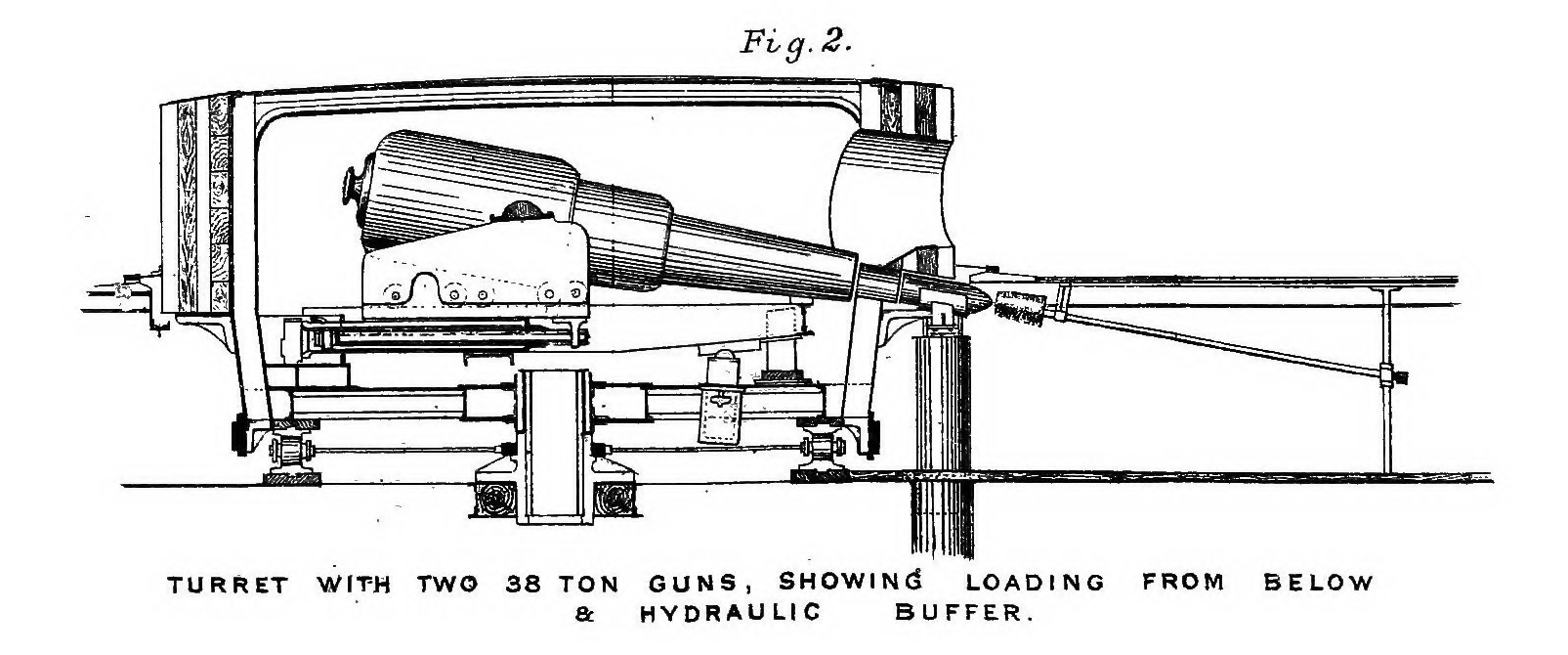 The hydraulic loading mechanism of HMS Thunderer. Illustration from King, J.W.: European Ships and their Armament. Published in Washington in 1877.